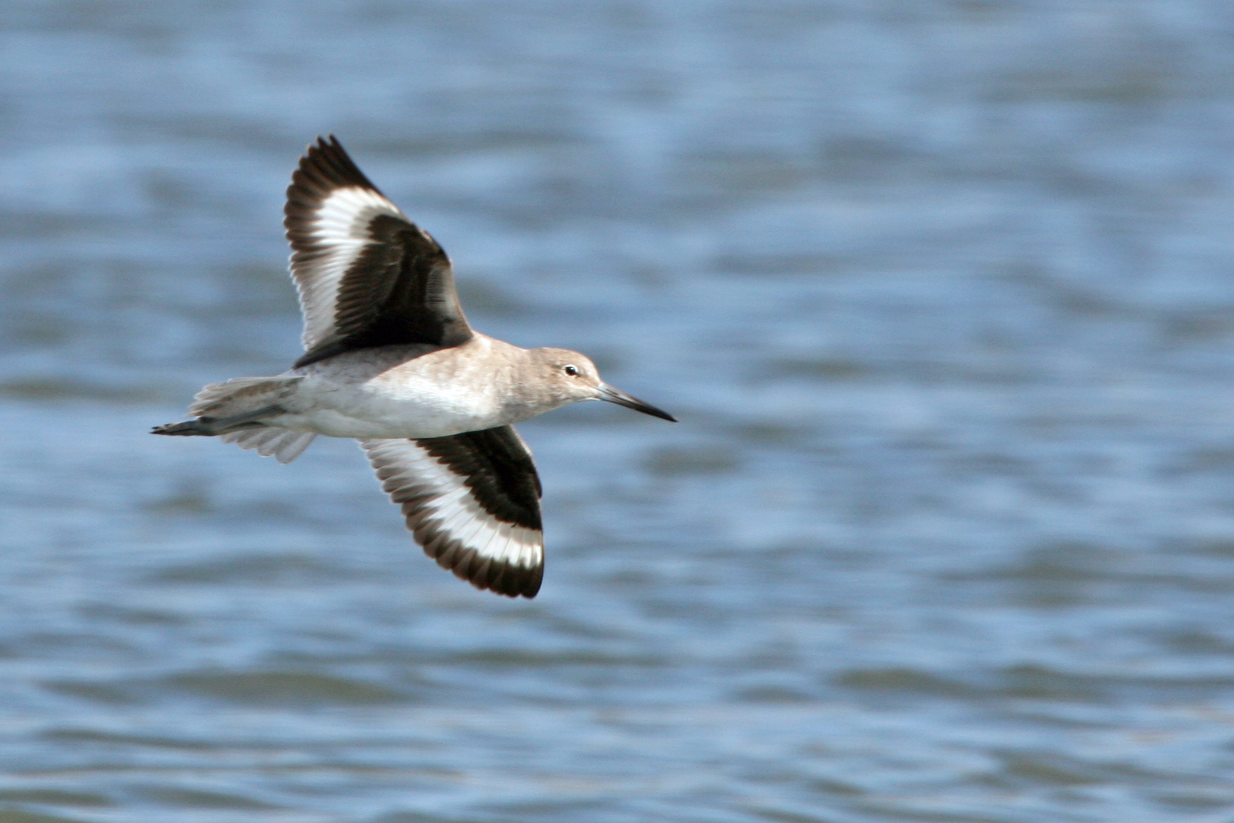 Willet in flight. Wiki says "The Willet, Tringa semipalmata (formerly Catoptrophorus semipalmatus: Pereira & Baker, 2005; Banks et al., 2006), is a large shorebird in the sandpiper family. It is a well-sized and stout scolopacid, the largest of the shanks." Photo by Mike Baird 11/5/07 photo request says: I am researching photos for the Audubon National Wildlife Refuge. I came across a photo of a willet on your Flickr site that could work for an interpretive sign that will be installed at the refuge. I attach the photo here for your reference. Is this photo available for use? If so, are there fees associated with the use? We would request one-time rights to display the photo for the life of the sign, and we would be happy to credit the photo to you. Thank you for your help, and please let me know if you require any additional information. Jennifer Evans, Content Coordinator, Formations Inc., 621 SE 202nd Avenue, Portland, OR 97233; Phone: 503-665-7110 ext. 210; Fax: 503-665-7188; ; jevans at 11/5/07 Permission granted - com" Note: has some other Willet candidates